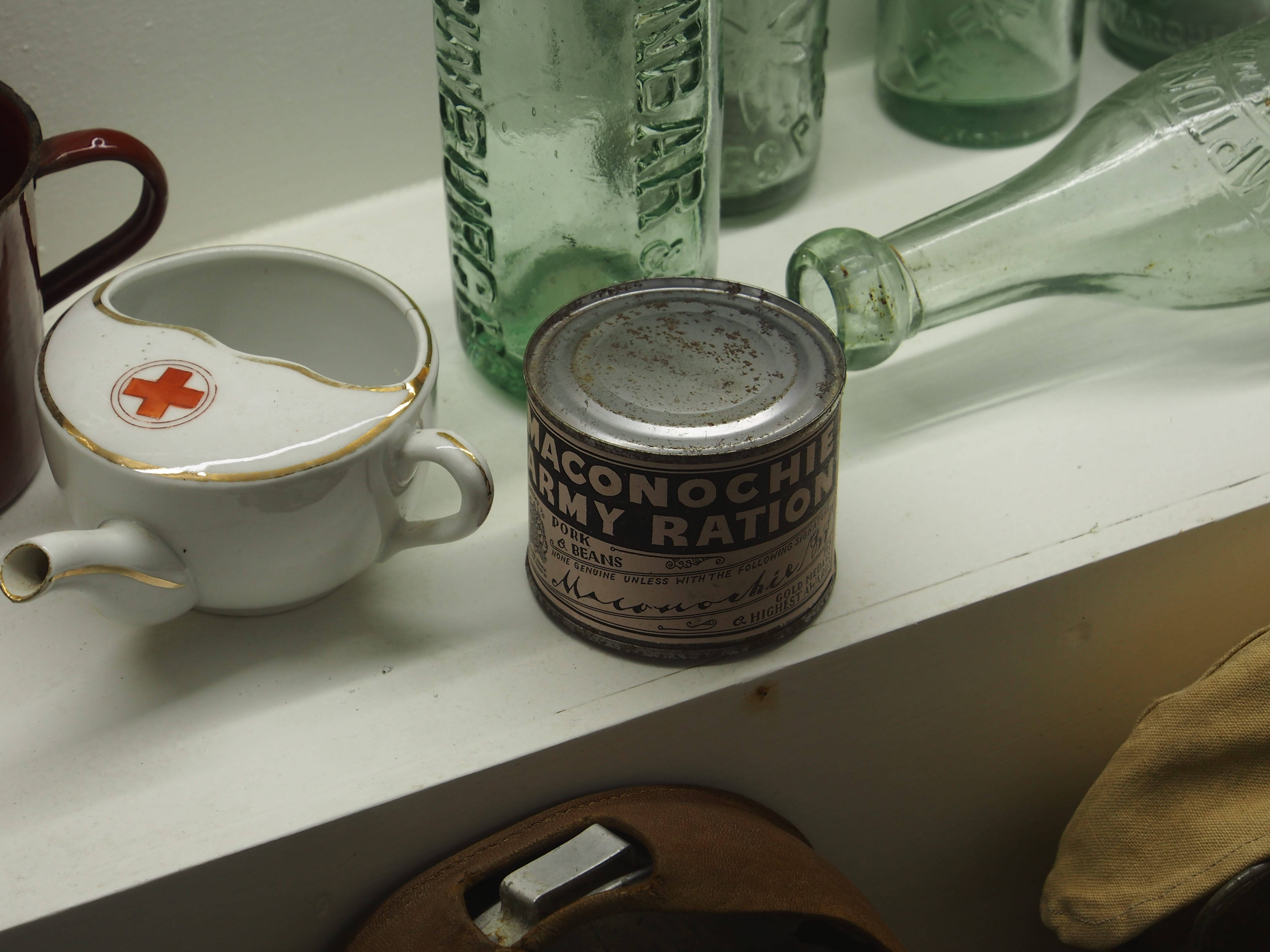 Photographed in the Musée Somme 1916 of Albert (Somme), France.